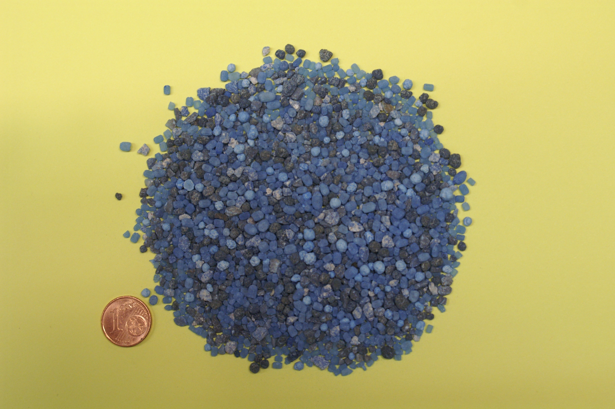 Mineral complex fertilizer or lawn fertilizer